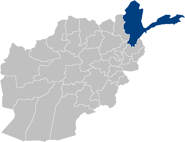 Location map for Badakhshan Province in Afghanistan. Original map source: Image:Afghanistan_provinces_blank.png